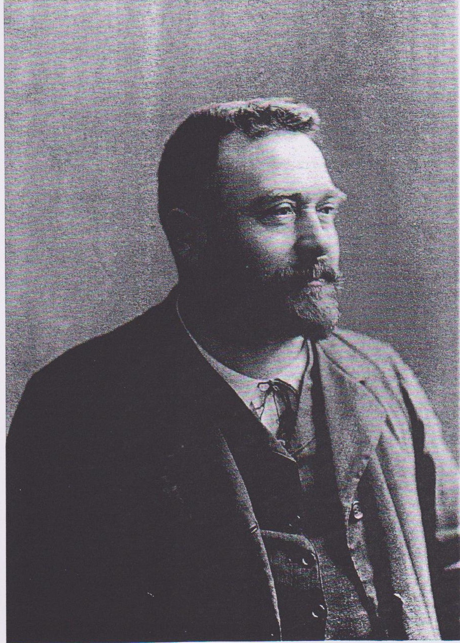 Portrait of the Sculptor and Woodcarver August Valentin